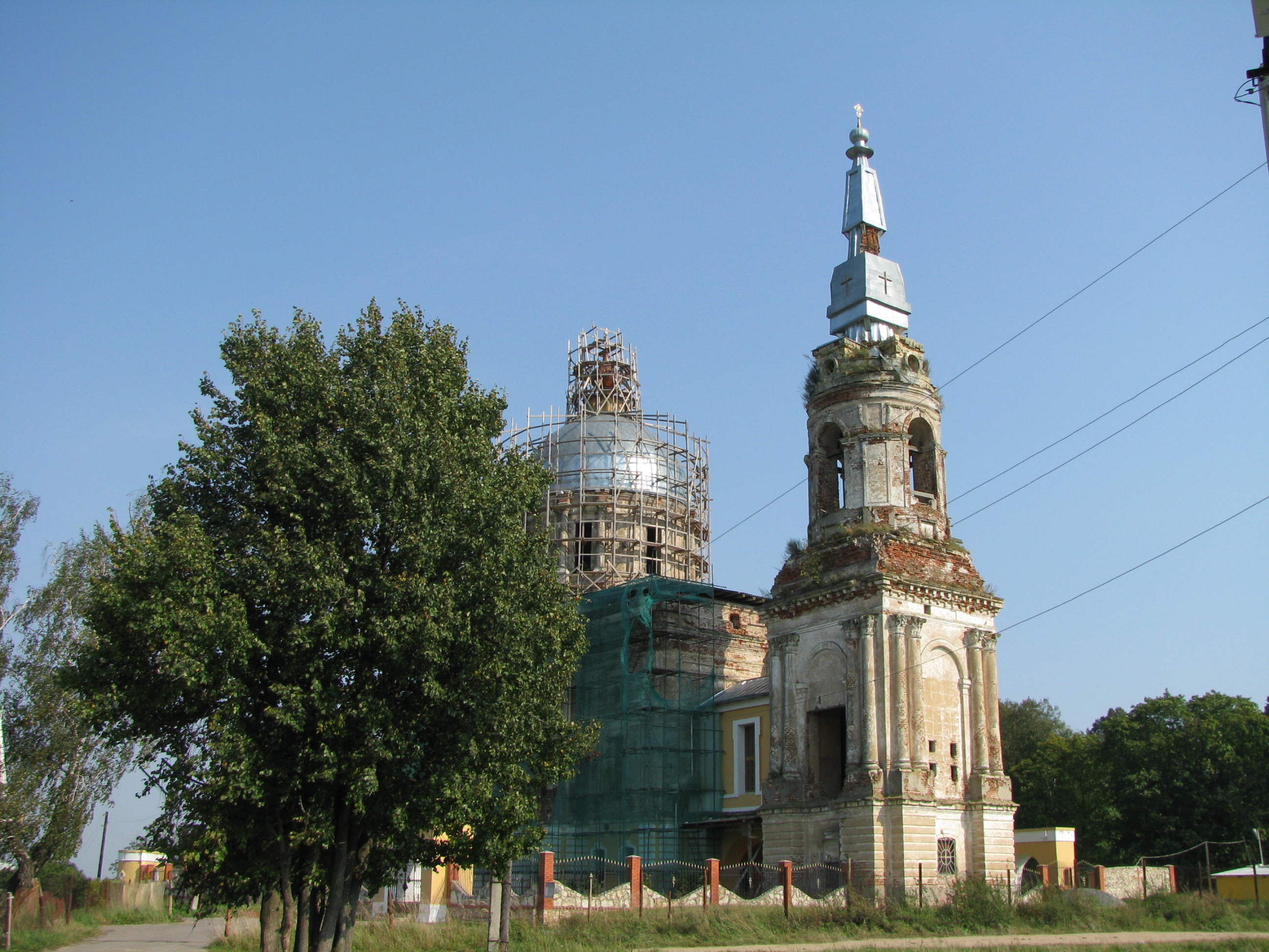 Raysemyonovskoye, Serpukhov District, Moscow Region. Сhurch (1765).